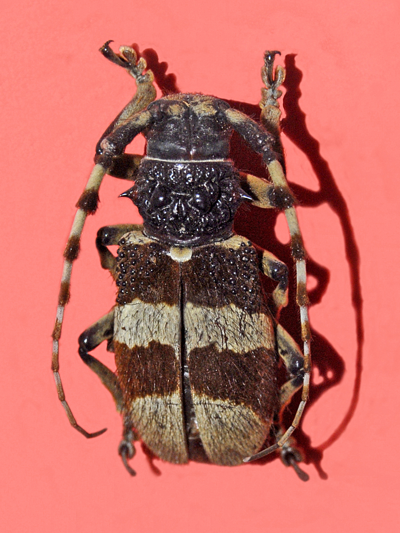 Museum specimen of Arctolamia fasciata. On display at the Museo Civico di Storia Naturale di Milano